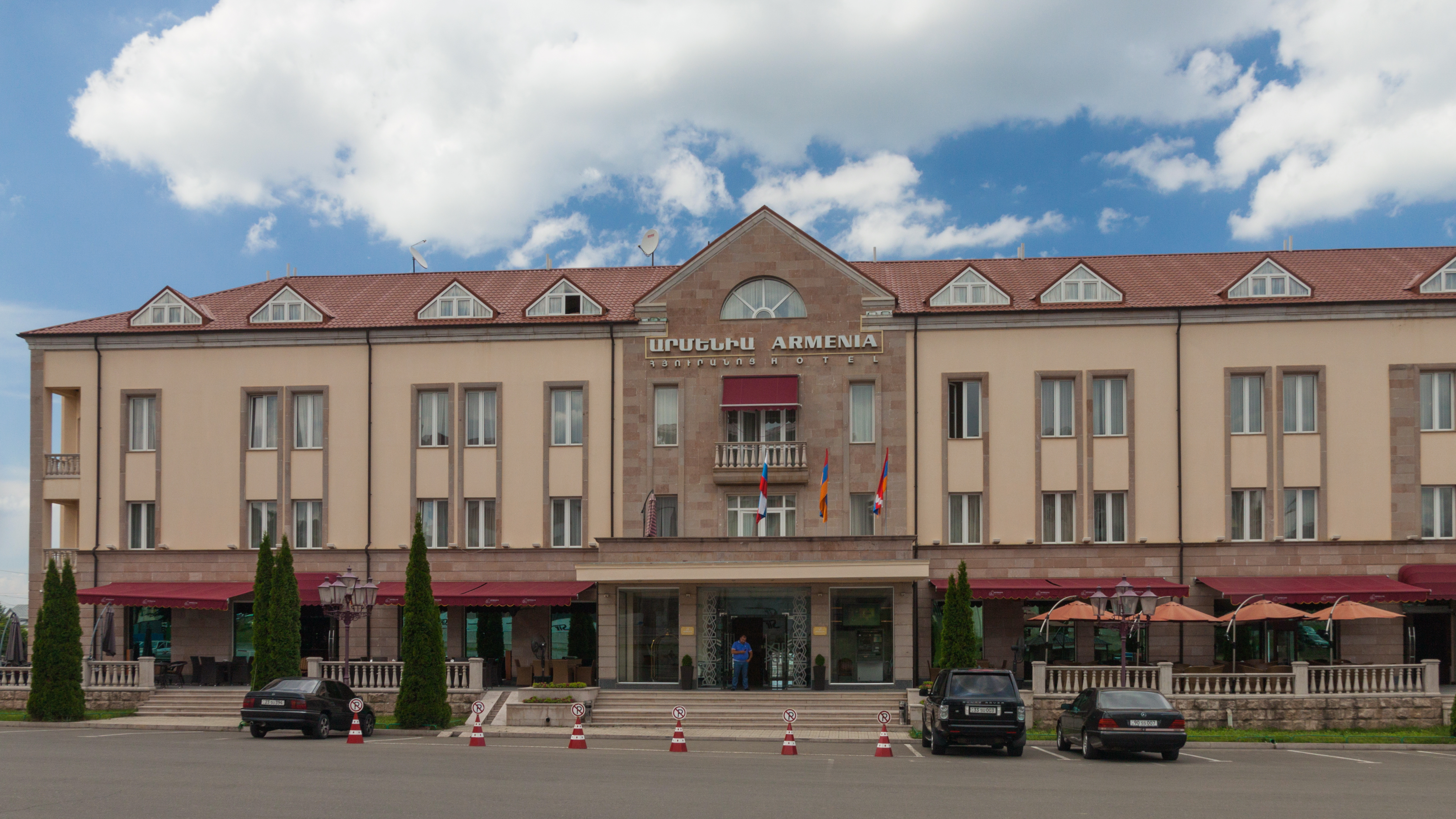 Armenia Hotel. Stepanakert/Xankəndi, Nagorno-Karabakh.